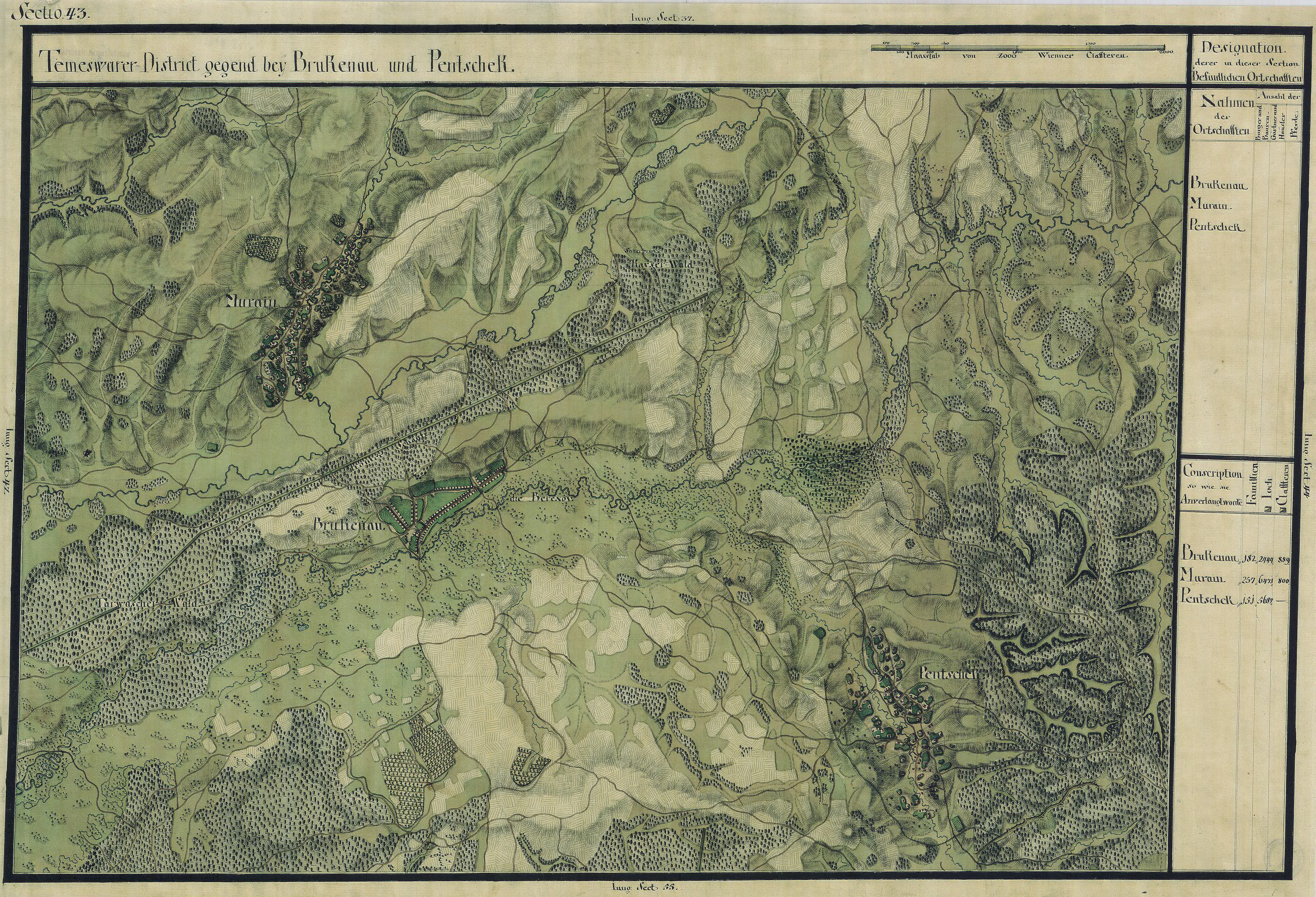 The Banat region in the cadastral maps: Josephinische Landesaufnahme, 1769-72. Josephinische Landaufnahme pg043